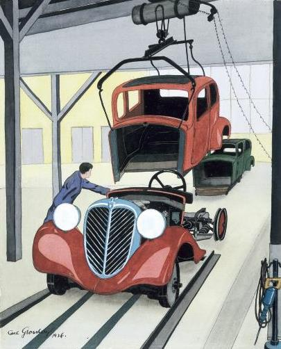 Car Factory